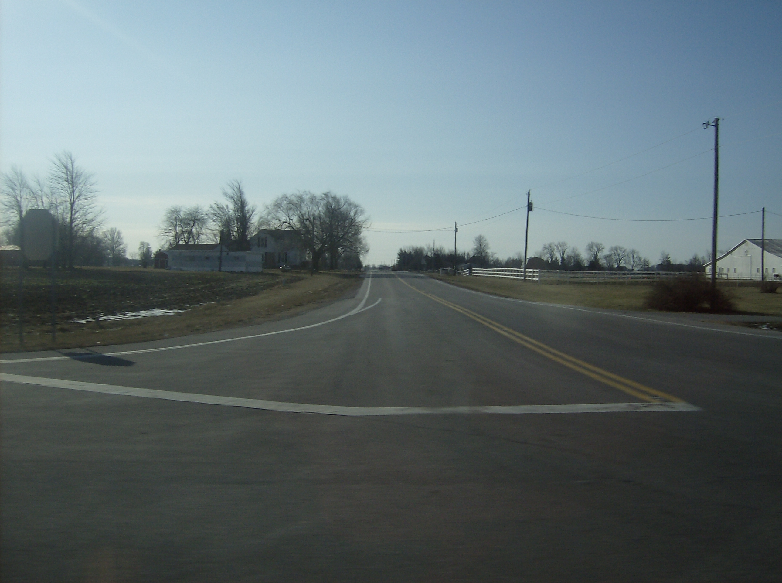 Along southbound State Road 101 in northern Union Township, Adams County, Indiana, United States. Picture taken southward from U.S. Route 224.